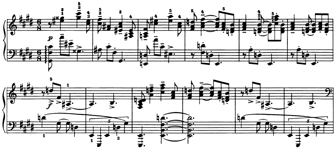 bars 185-197